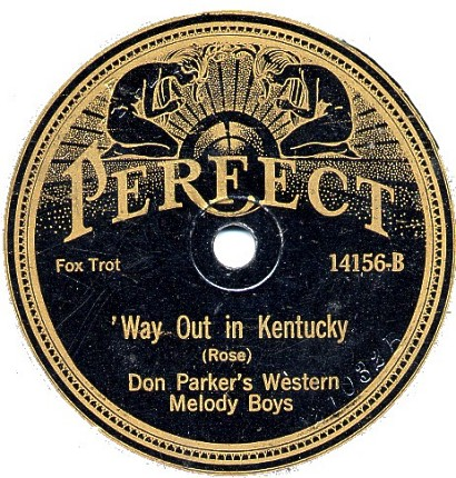 Way Out in Kentucky by Don Parker's Western Melody Boys; published by US Perfect Records